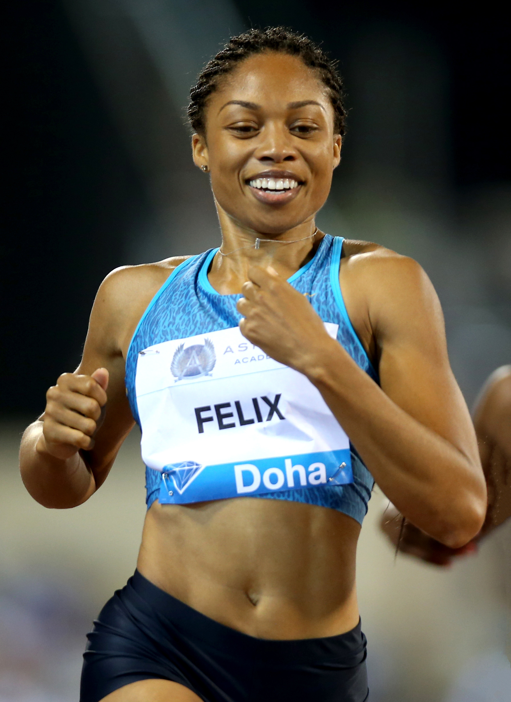 American Allyson Felix celebrates her 200M win at the Doha Diamond League. Pic by Mohan